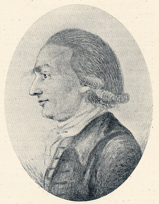 Johann Georg Hamann. Contemporary drawing.